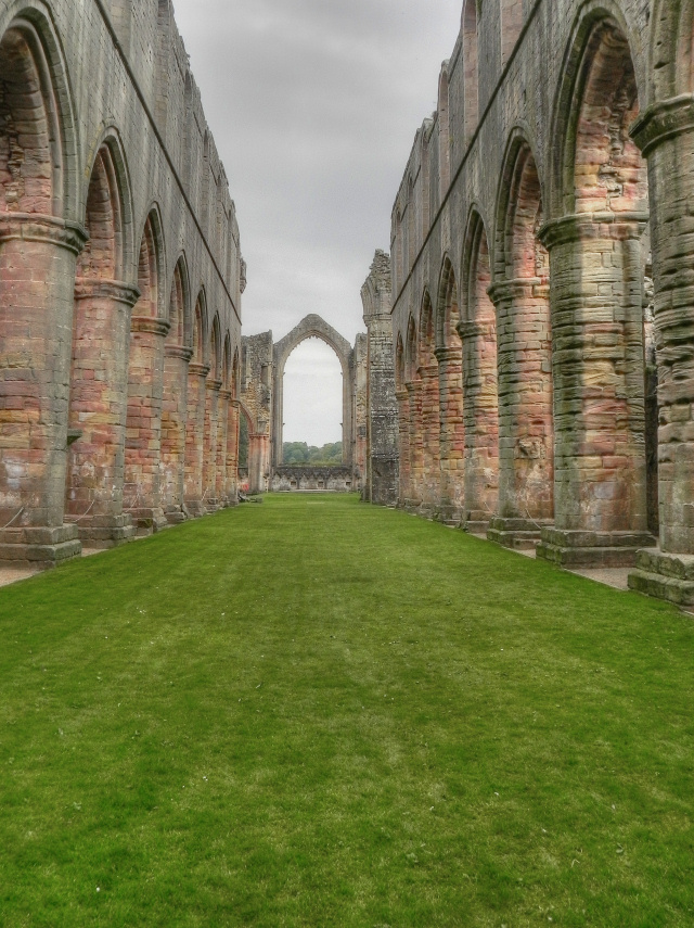 The Abbey Church, Fountains Abbey. Today, the ruins at Fountains include some of the most significant Cistercian remains in Europe, notably, the twelfth-century western range and the oldest surviving Cistercian water-mill. Excavations at Fountains have uncovered the remains of the first timber buildings, which were begun in 1134.